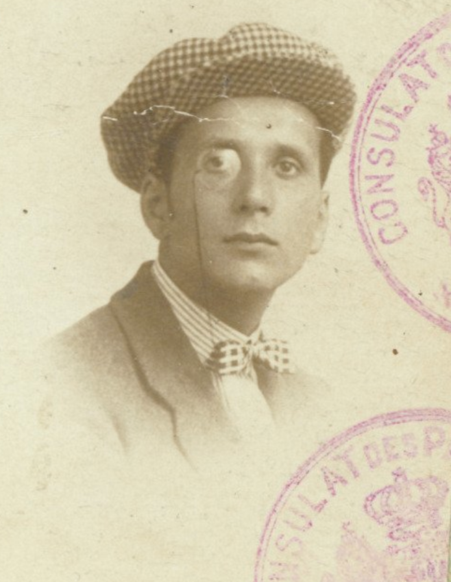 Boris Skossyreff Wearing a Monacle